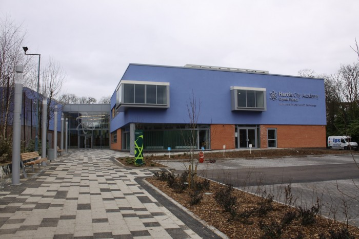 The Post 16 block at the front of the Academy soon after its completion in 2010. Small alterations have since been made to the exterior.